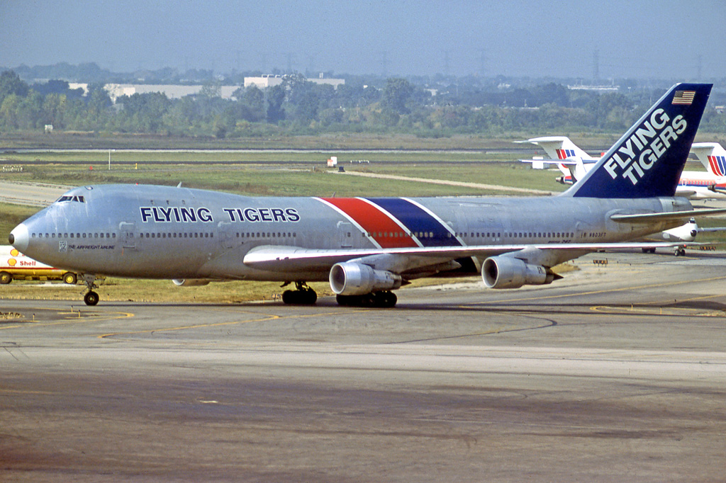 Boeing 747-132SF N803FT of Flying Tiger Line at Chicago O'Hare Airport in 1979